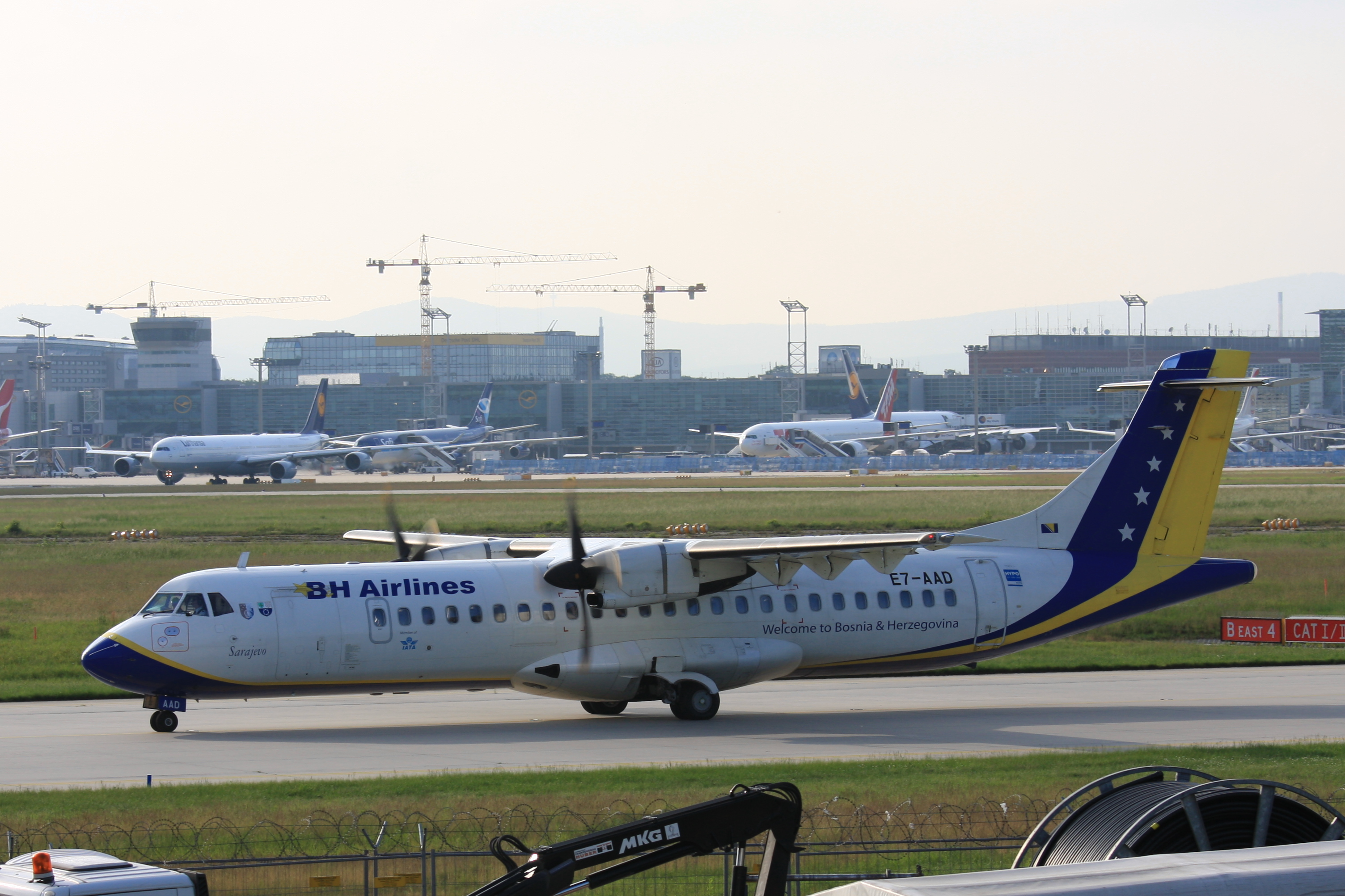 ATR 72 of B&H Airlines at Frankfurt Airport